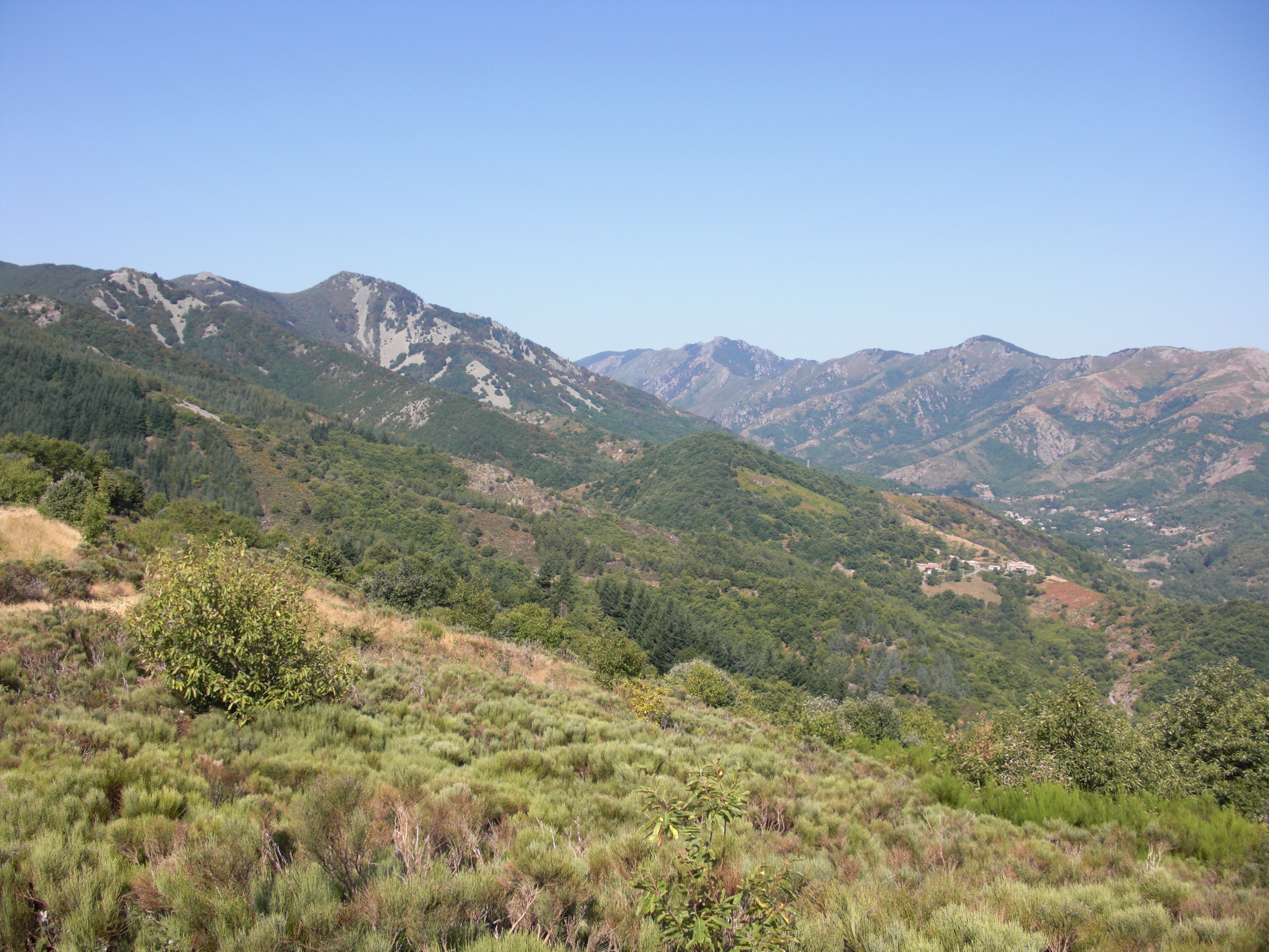 View on the Lignon valley